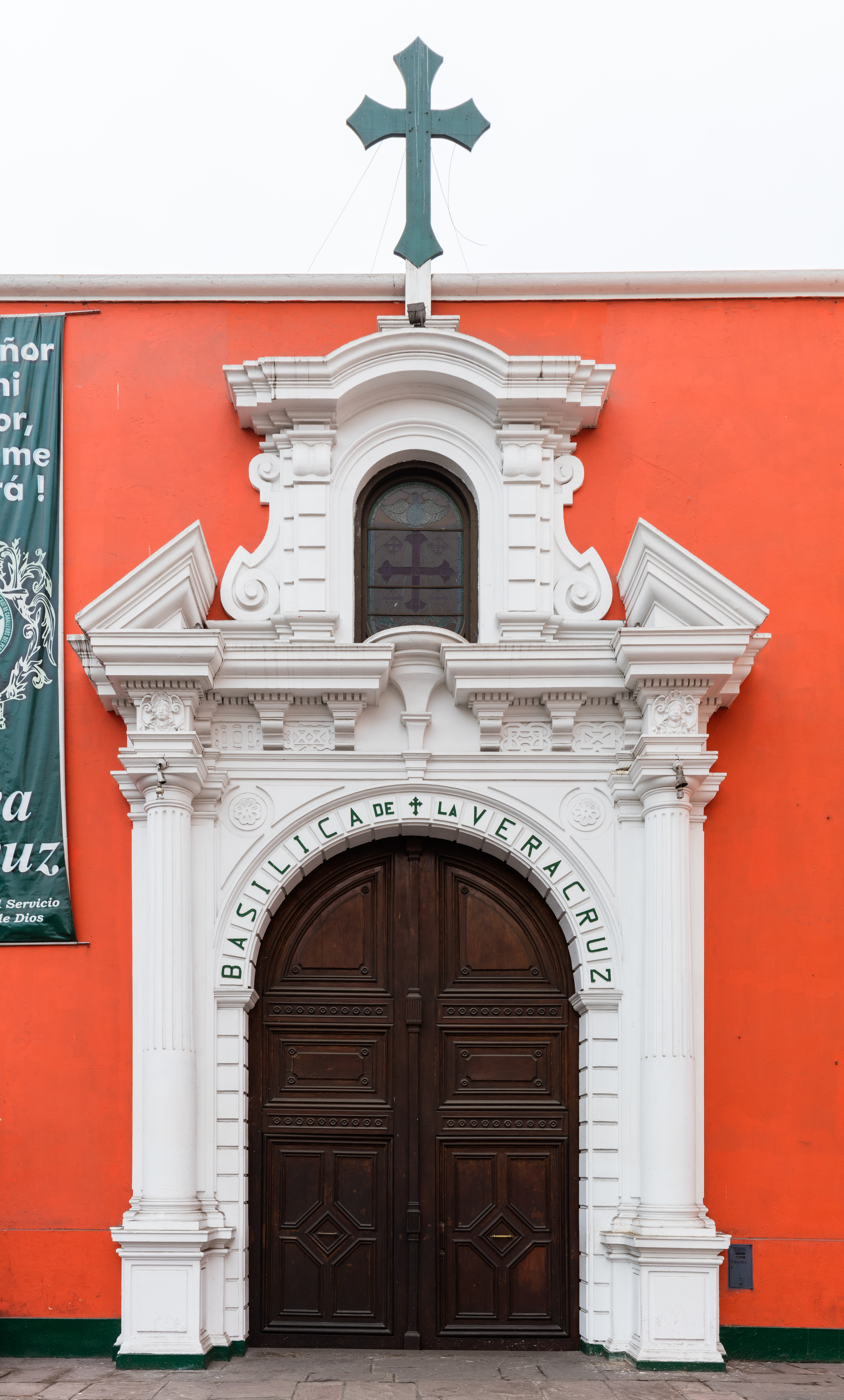 Church of St Domingo, Lima, Peru